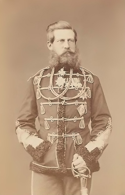 German Emperor Photo